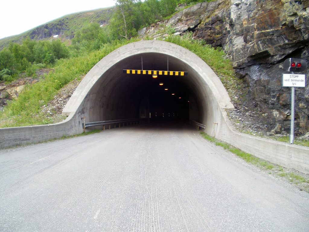 The western entrance of Storfjelltunnelen.